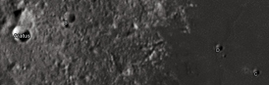 Aratus lunar crater as seen from Earth with satellite craters labeled